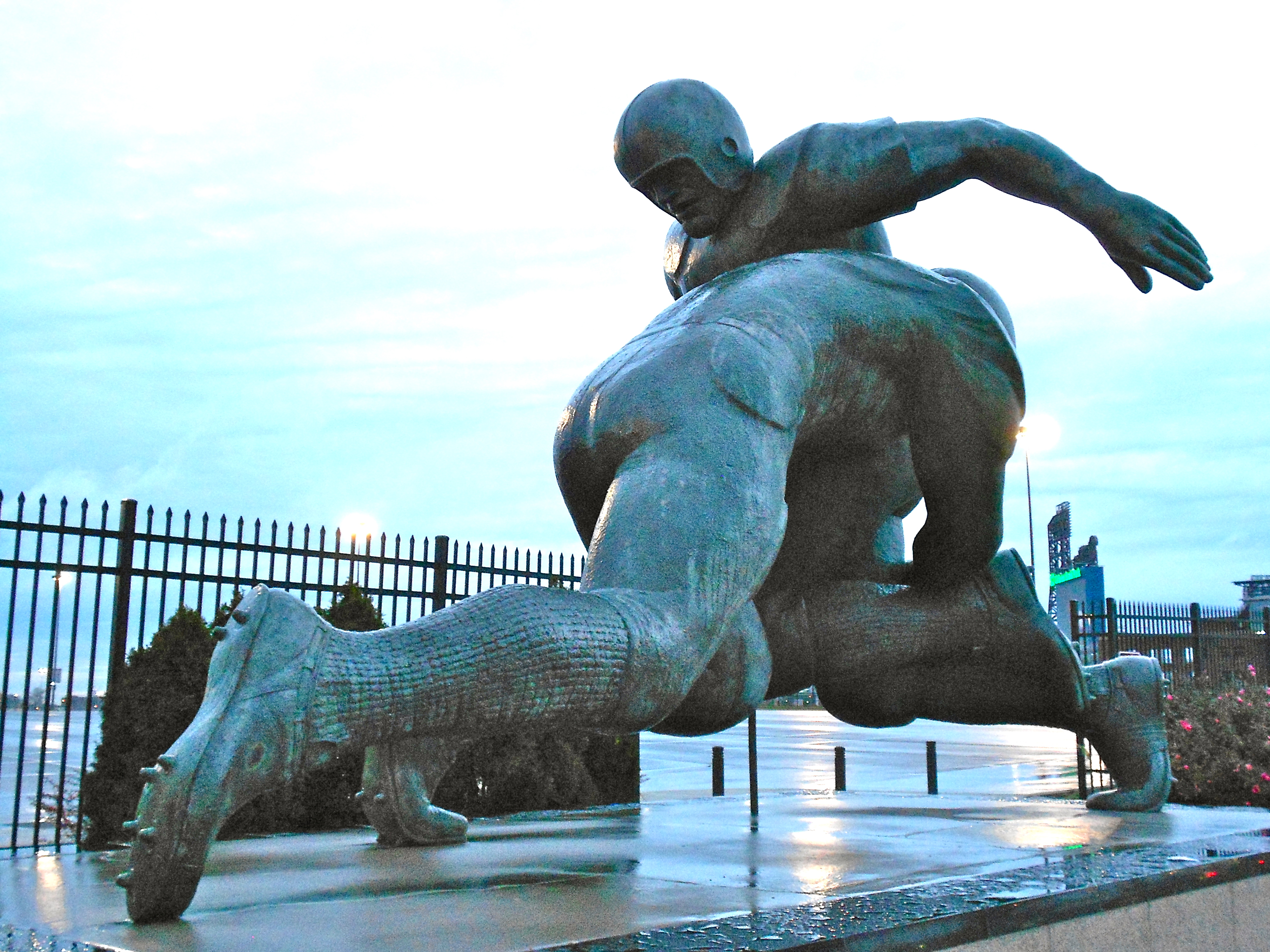 Tackle by Joe Brown (sculptor) installed in 1975 in Veterans Stadium, "moved" to Citizens Bank Park. Bronze sculpture; concrete base. SIRIS reference IAS PA000187. No visible copyright notice, so the work is out of copyright.